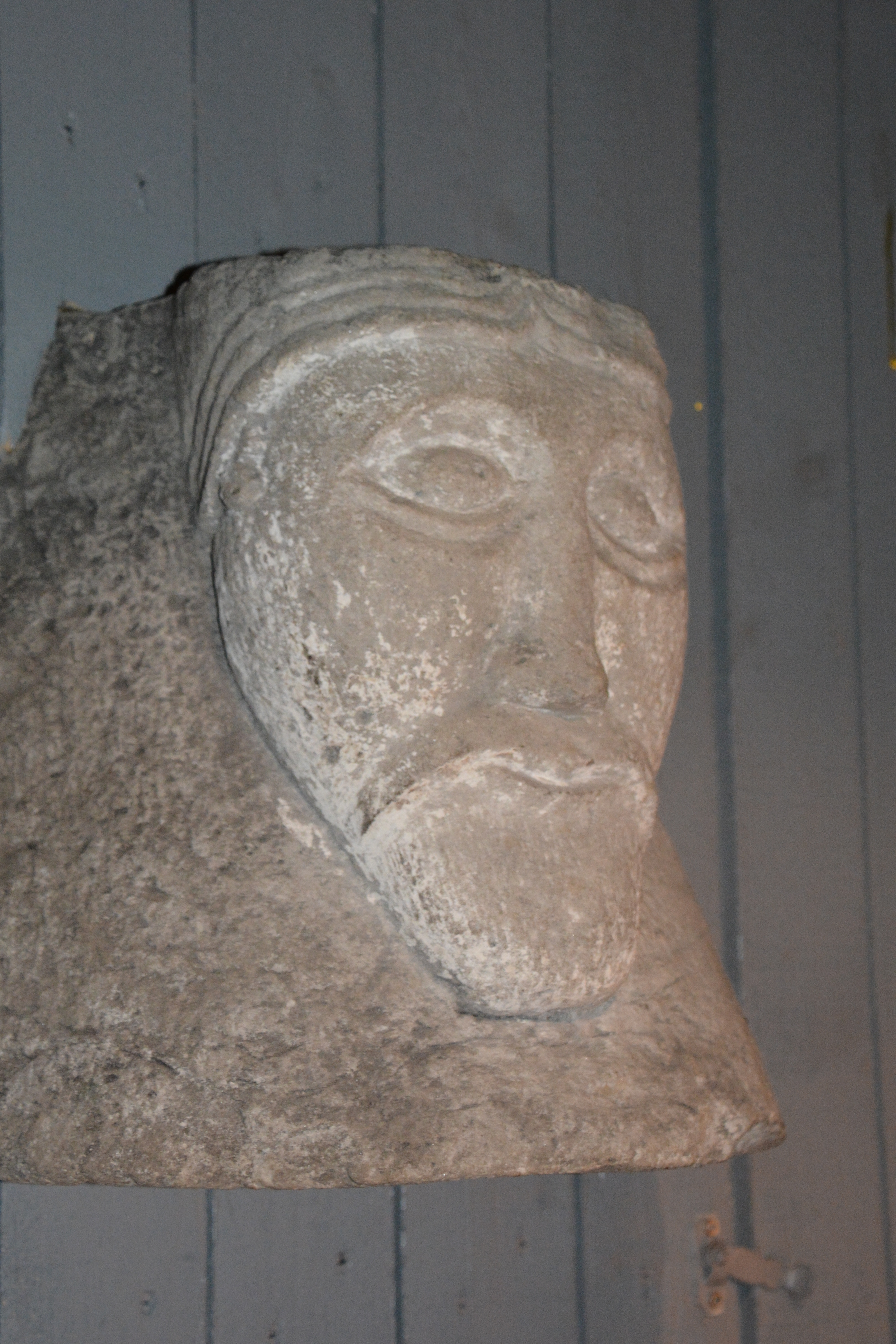 Drottens kyrkoruin. Fasadutsmyckning.